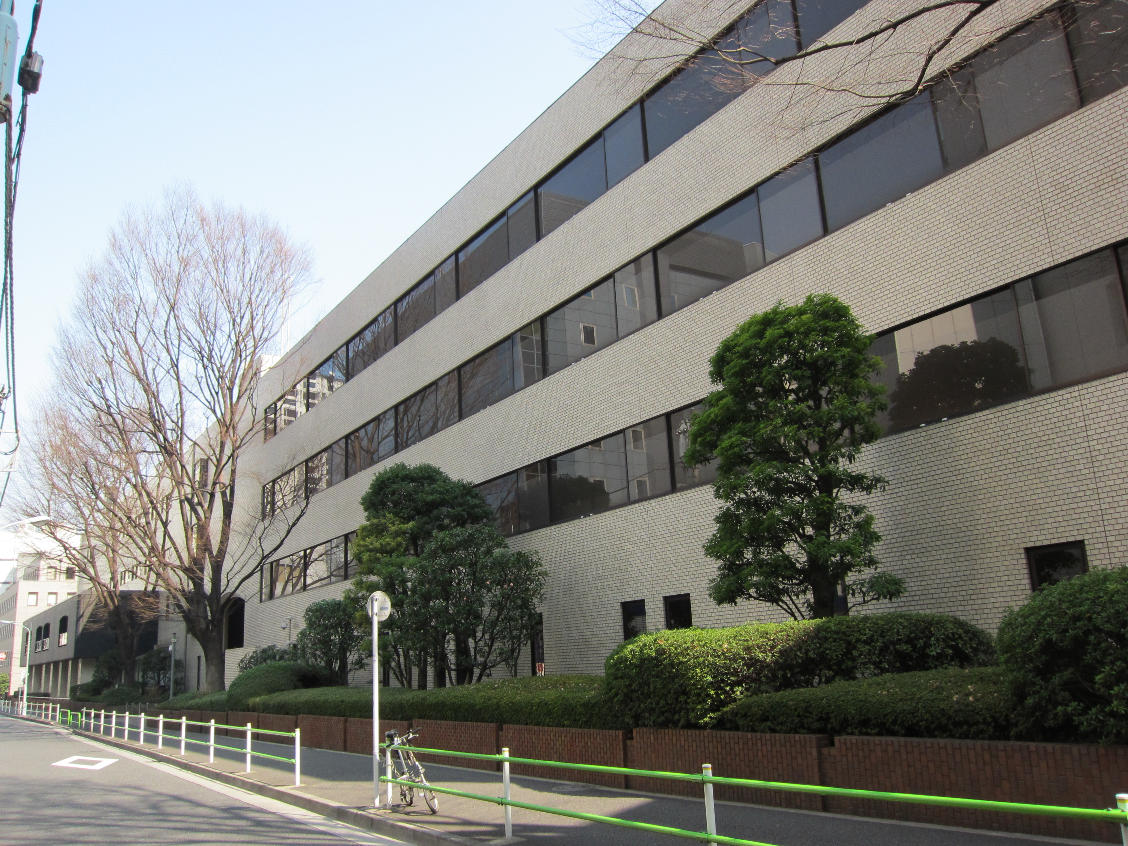 Yamawaki Gakuen Junior College